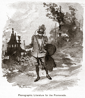 Illustration by Albert Robida, for « The End of the Books » by Octave Uzanne, published in Scribner's Magazine, vol. 16, no 2, August 1894, p. 228.